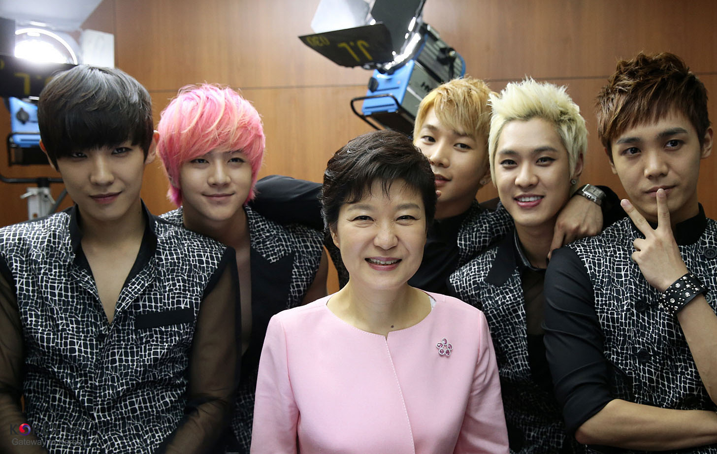 President Park Geun-hye’s state visit to China Photo=Cheong Wa Dae (Related Article) Presidential visit opens new era in Korea-China ties Presidential trip to reshape future vision of Seoul-Beijing ties President Park holds 1st Korea-China summit in Beijing 박근혜 대통령 중국 국빈방문 사진=청와대 韩国总统朴槿惠 将对中国进行国事访问 韩国总统朴槿惠访华 打开中韩未来新篇章 朴槿惠同中国国家主席习近平举行首次首脑会谈 韩总统朴槿惠访华 为韩中关系设定新的未来愿景